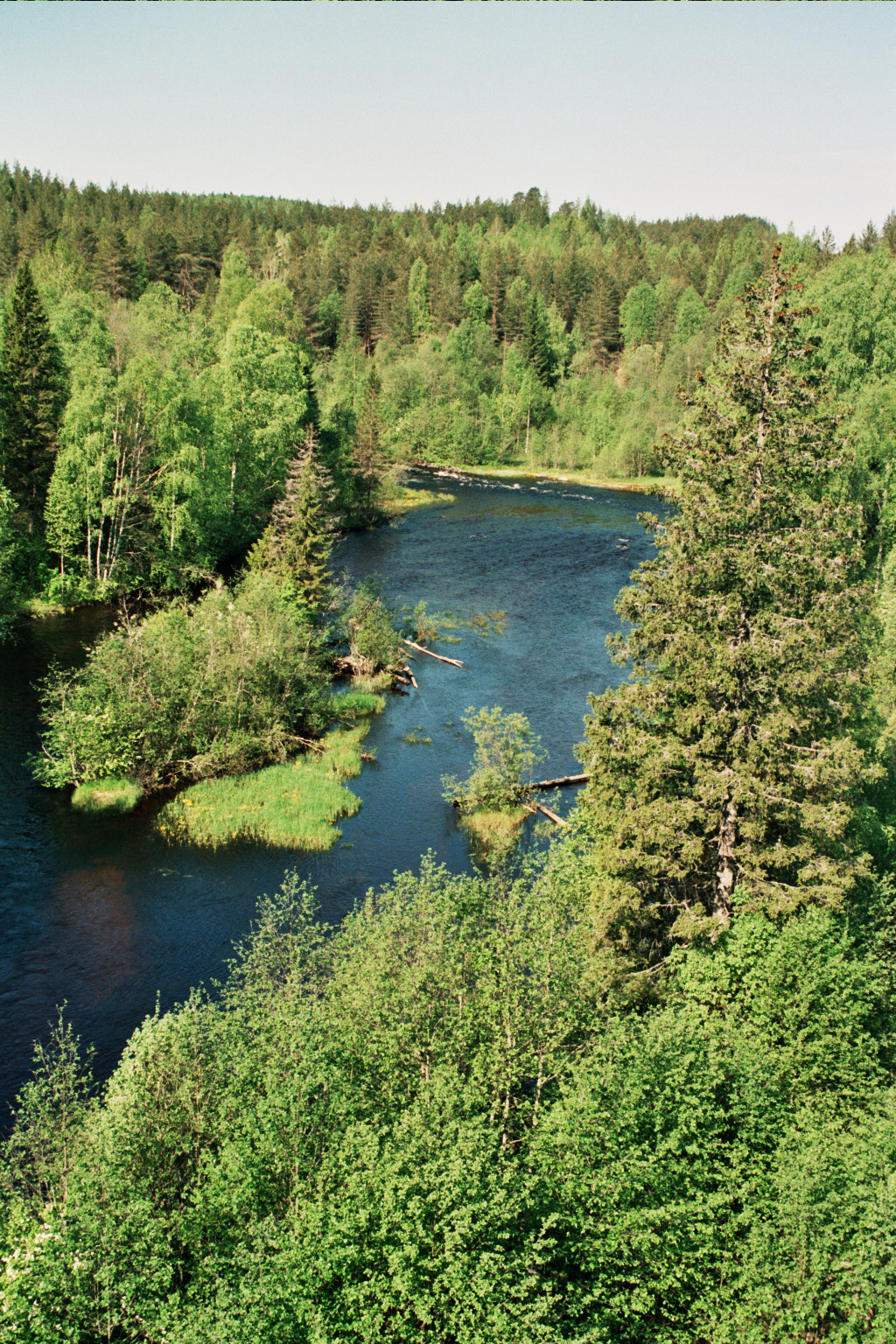 River Kumsa, as seen from the M18.